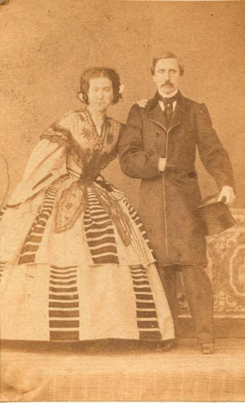 Carolina Augusta Pereira de Eça de Queirós (1826-1918) and José Maria de Almeida Teixeira de Eça de Queirós (1820-1901), the parents of Portuguese writer Eça de Queirós (1845-1900)